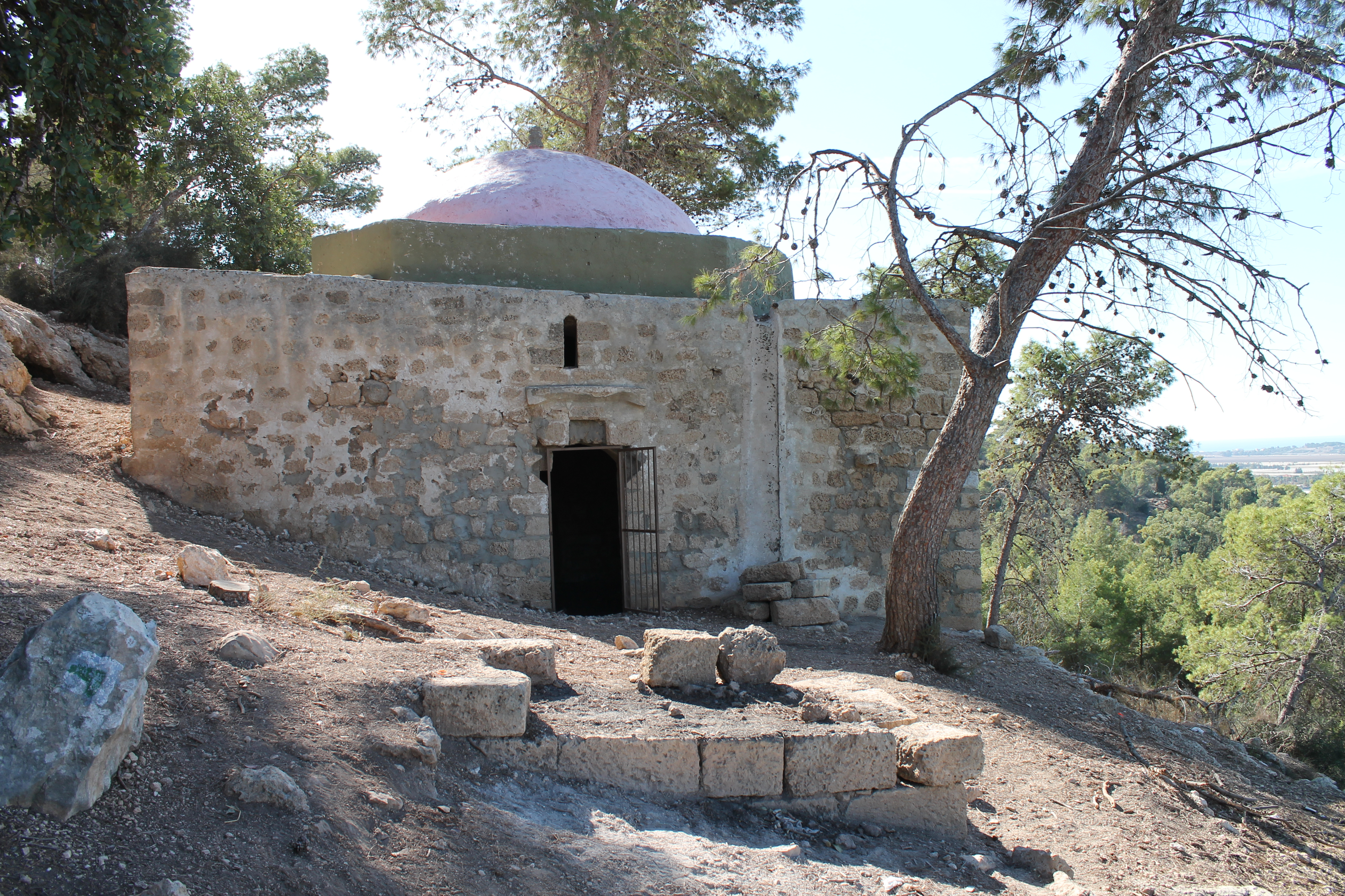 Maqam of Sheikh Amir near Mizpe Ophir